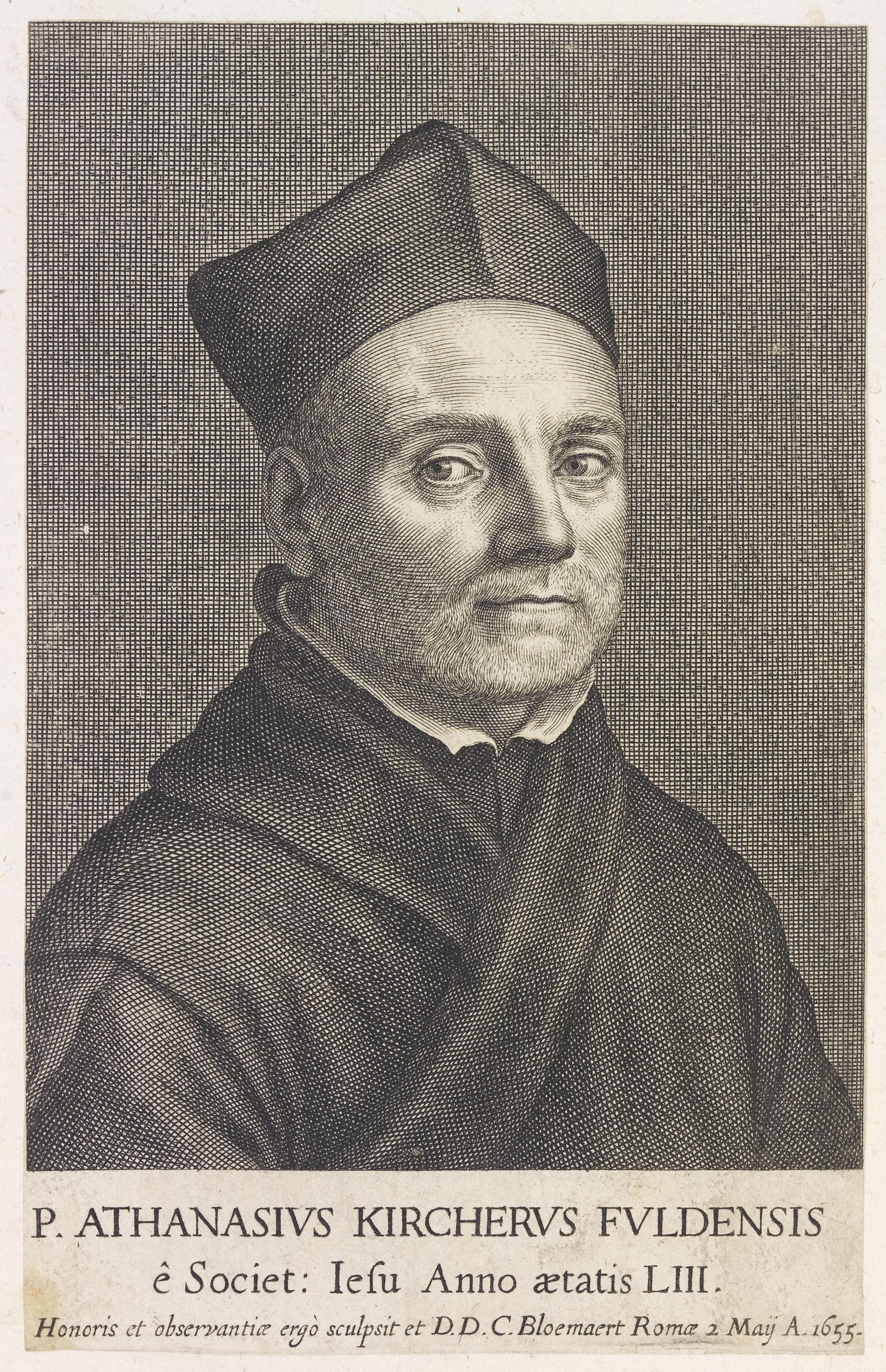 Depicted person: Athanasius Kircher